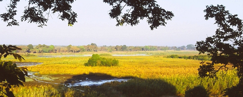 A view over Kasanka National Park in Zambia